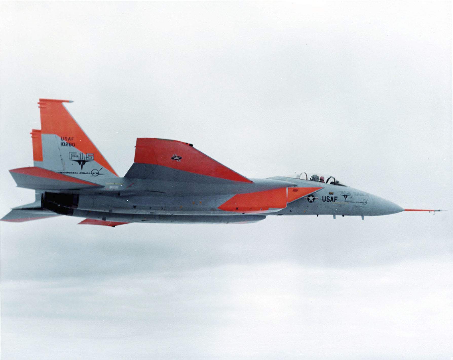 McDonnell Douglas F-15A (S/N 71-0280, the first F-15A prototype). Note the square wingtips and unnotched stabilator.